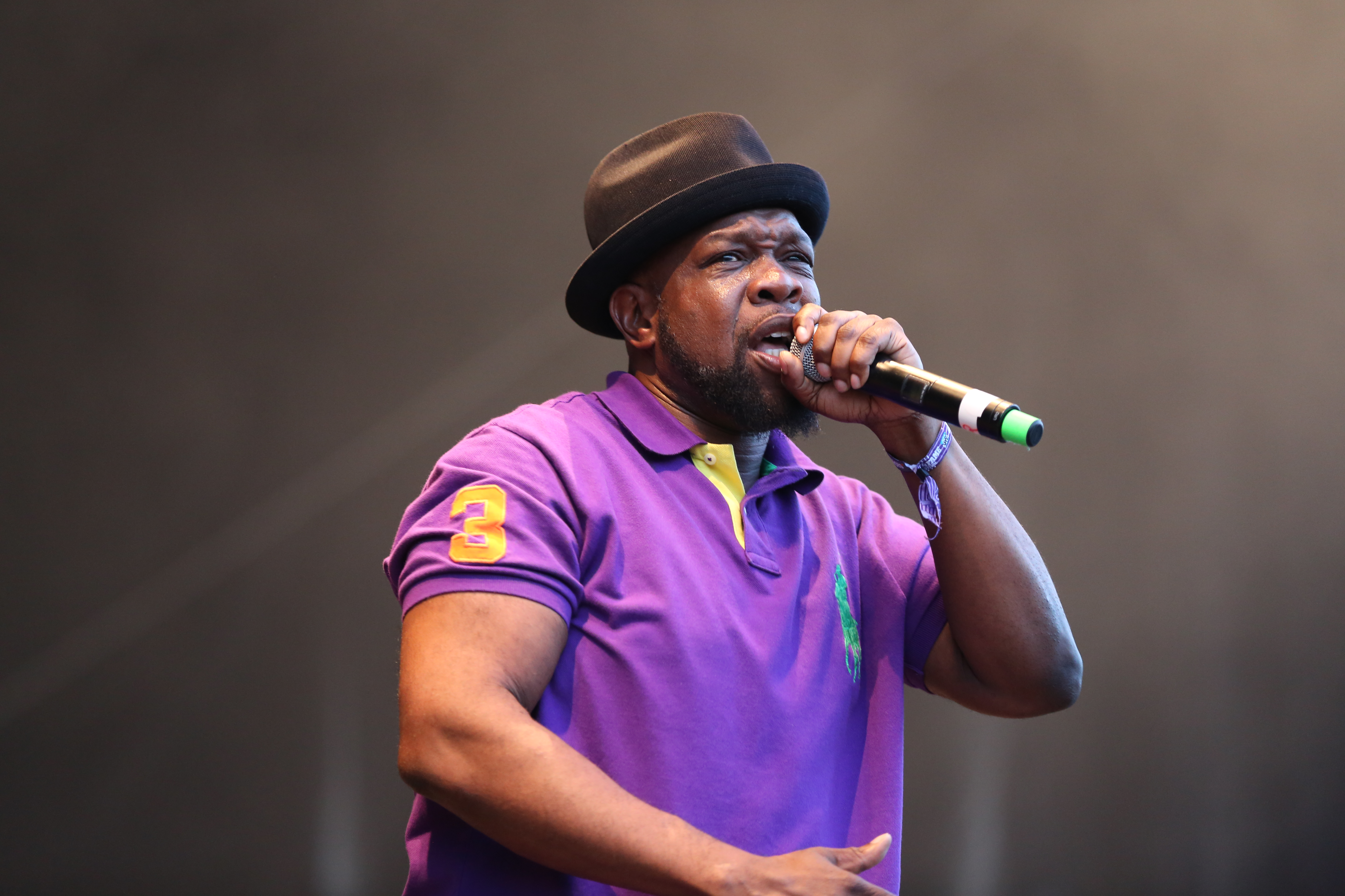 Jeru the Damaja beim Out4Fame-Festival 2016